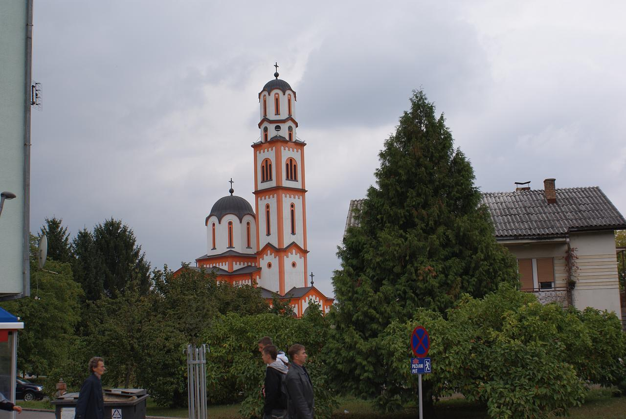 Orthodox church in Laktaši